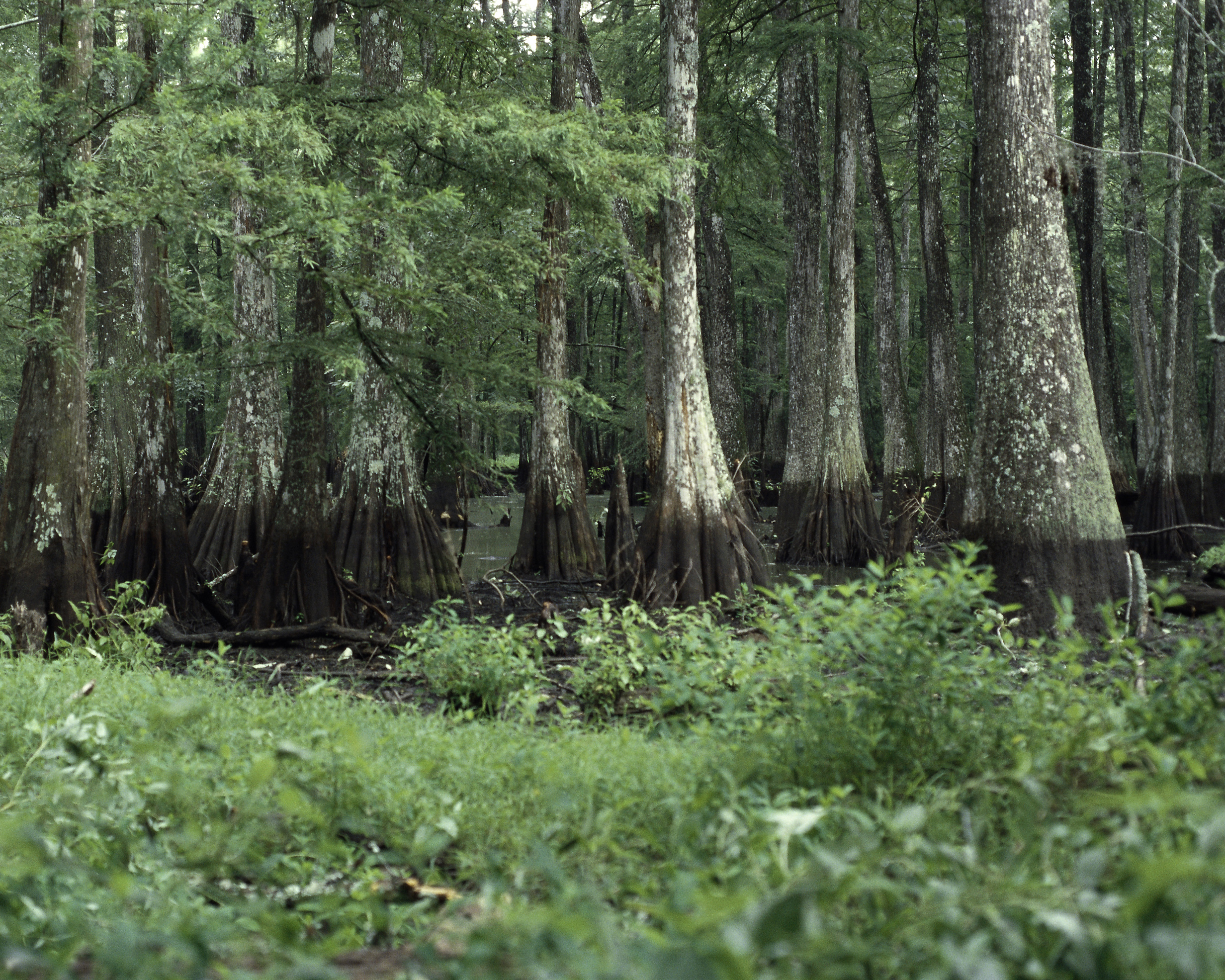 Title: Bayou Cocodrie National Wildlife Refuge, Louisiana Creator: USFWS Photo Source: WV-9447-Centennial CD Publisher: U.S. Fish and Wildlife Service Contributor: NATIONAL CONSERVATION TRAINING CENTER-PUBLICATIONS AND TRAINING MATERIALS Bayou Cocodrie NWR, Ferriday, Louisiana: In the spring, bald cypress stands such as this one at Bayou Cocodrie National Wildlife Refuge are noisy with woodstork, heron, and egret rookeries. Waterfowl such as pintails, mallards, teal, and shovelers stop at the refuge to rest and feed during migration. And colorful wood ducks are year-round residents. In fact, one of the reasons Bayou Cocodrie was established in 1992 was to provide habitat for wood ducks. Other wetland-dependent species found here include alligators, beavers, ospreys, and swallow-tailed kites. Peregrine falcons and bald eagles winter here. The forested areas of the refuge provide a corridor for endangered Louisiana black bears traveling between Tensas River National Wildlife Refuge to the north and Red River Wildlife Management Area. Hunting and fishing are popular activities at the refuge, as are hiking, boating, wildlife observation and photography. Use of all-terrain vehicles is also permitted on the refuge.